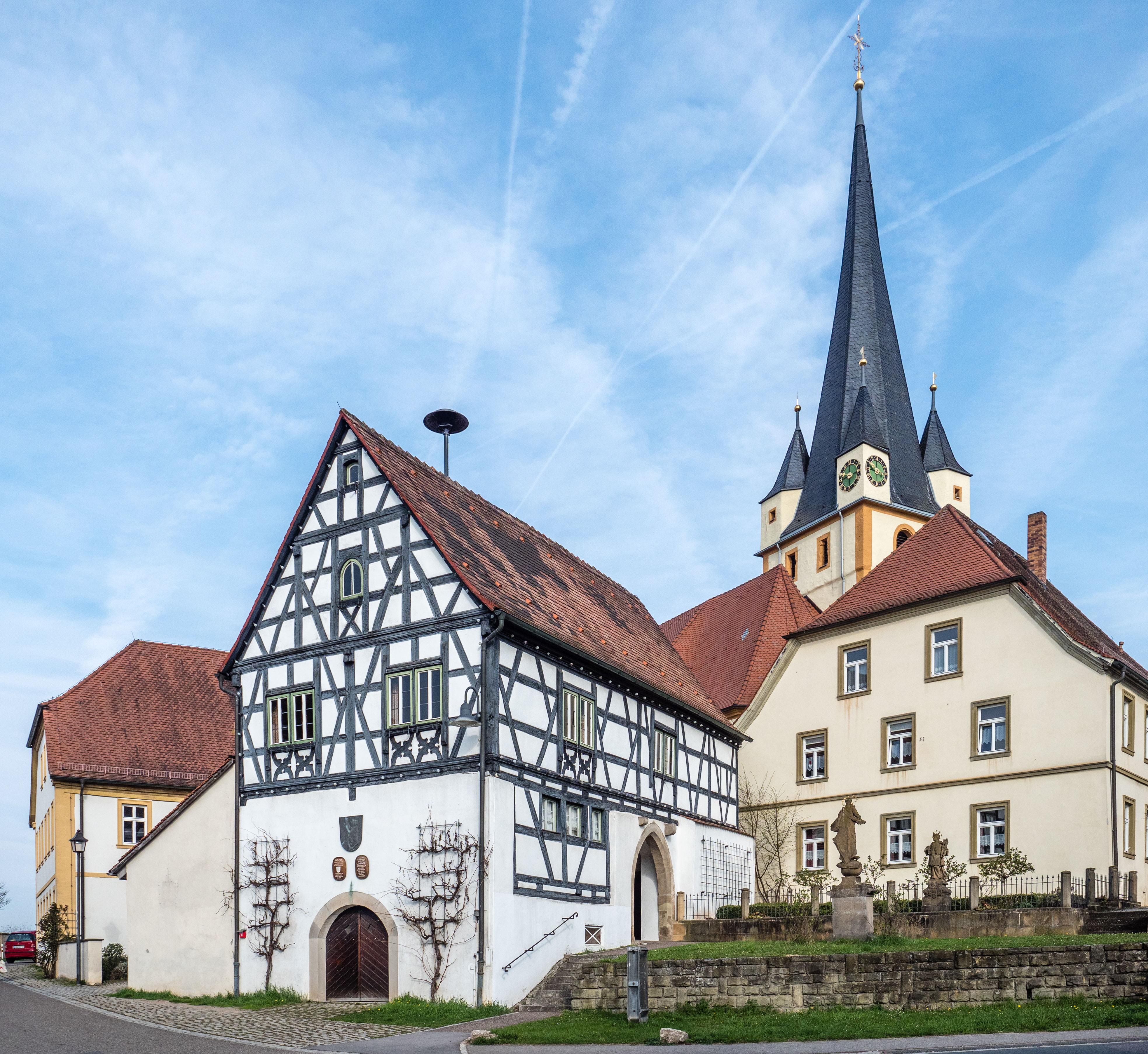 Museum and church in Stettfeld